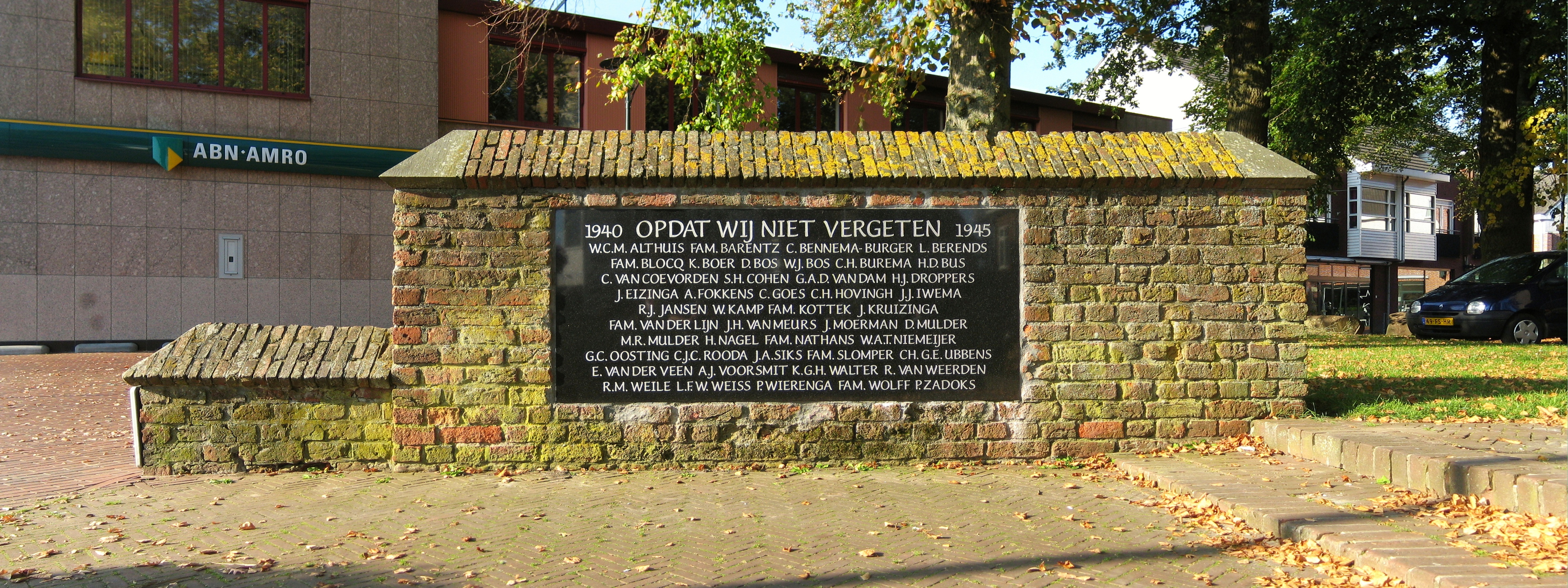 Second World War memorial in Haren, a village in the Dutch province of Groningen.